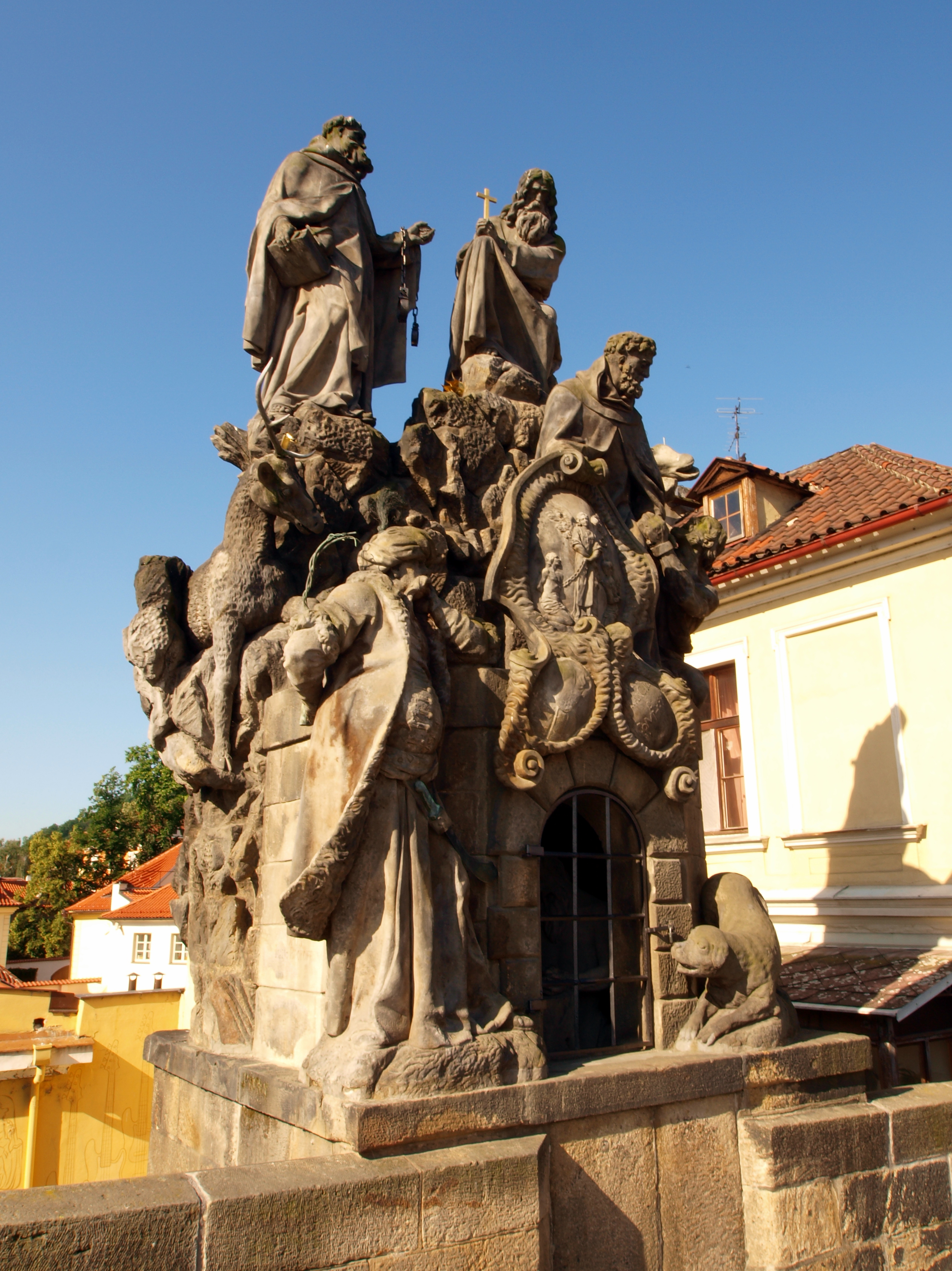 Charles Bridge statue, Prague